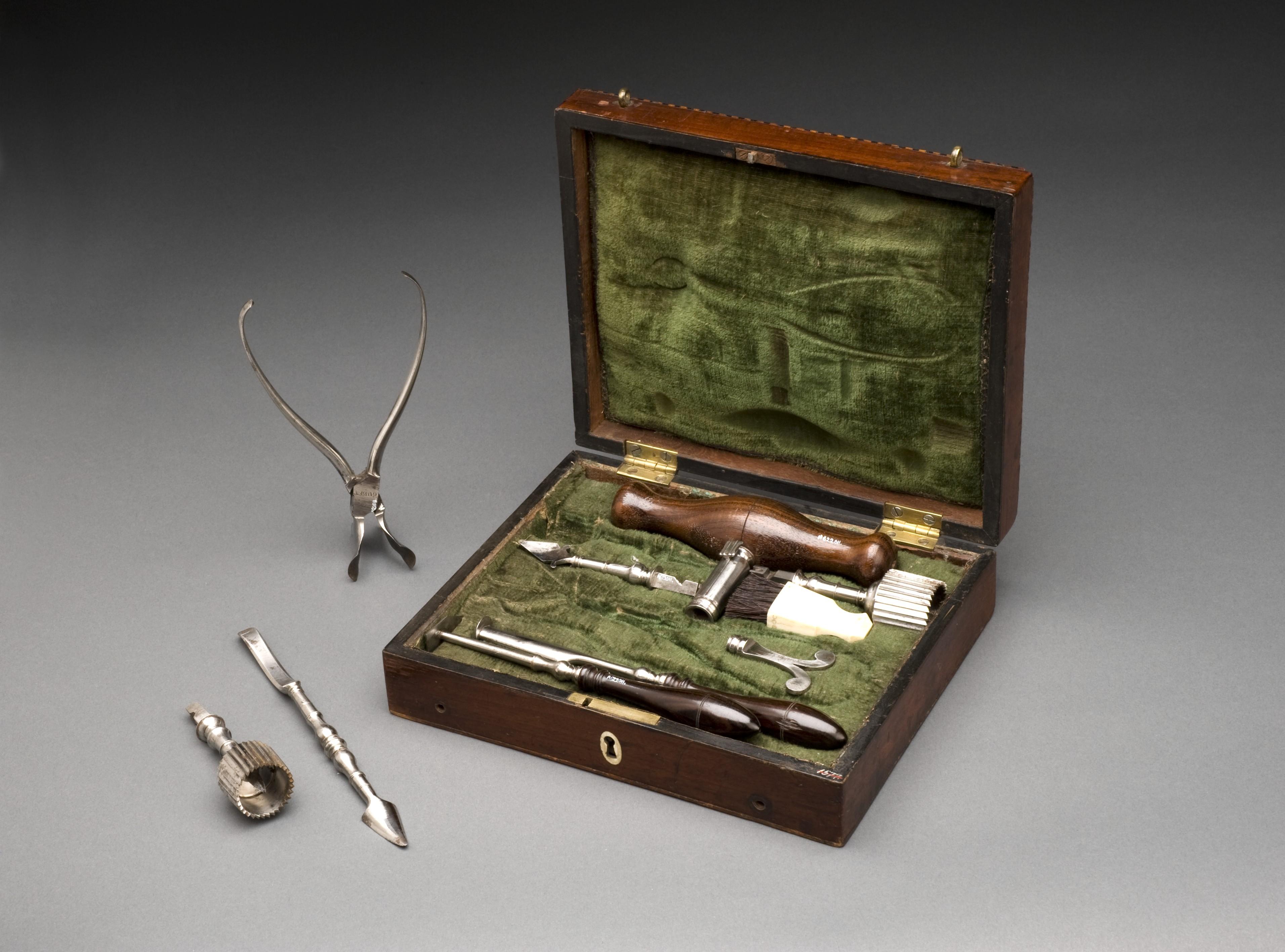 This trephination set had all the necessary equipment to perform surgery on the skull. Also known as trepanation, it is surgical practice with ancient origins. This is a nine-piece set containing forceps, an elevator for lifting up bone fragments, a lenticular to depress brain material during surgery, a brush, a rugine to scrape the covering surface of bones which attach to muscles and tendons, and a trephine with three bits and a key to undo the drill. The set was manufactured by Guest, a surgical instrument maker based in London during the late 1700s. maker: Guest Place made: London, Greater London, England, United Kingdom Wellcome Images Keywords: trephination set; forceps; lenticular; Surgical Instruments; rugine; trephine; skull elevator